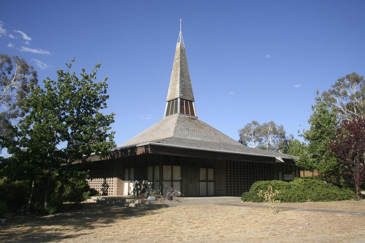 Holy Trinity Lutheran Church, Canberra. Designed by Frederick Romberg, 1960.